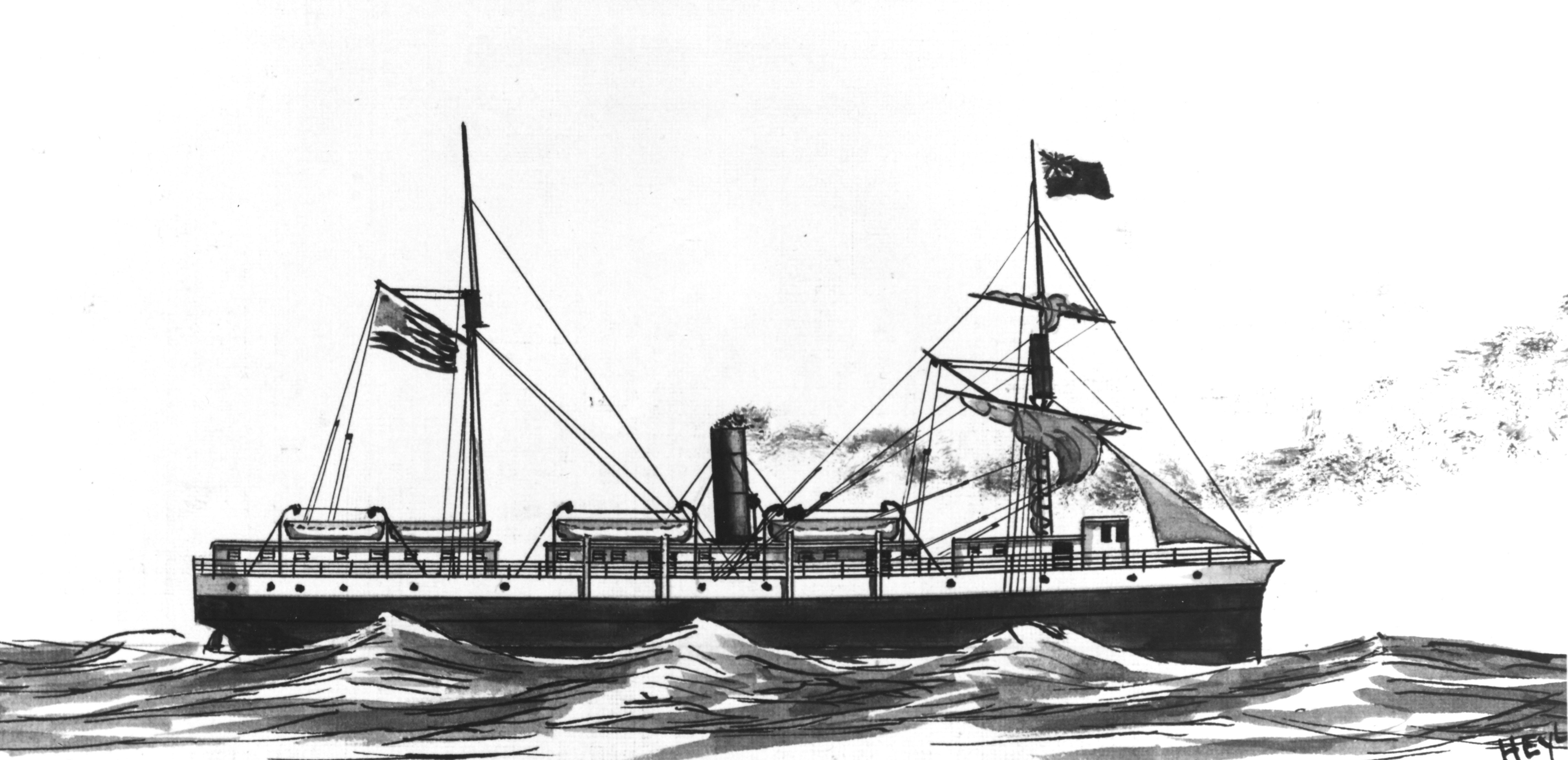 The steamship Somerset. Built in New York in 1863 as Nereus, the ship was requisitioned by the United States Navy while still under construction and completed as a gunboat, serving in the American Civil War as USS Nereus. After the war, the vessel was sold, and entered merchant service as the steamship Somerset, first in transatlantic service and later in American East Coast and United States – Canadian service. The ship was broken up in 1887.